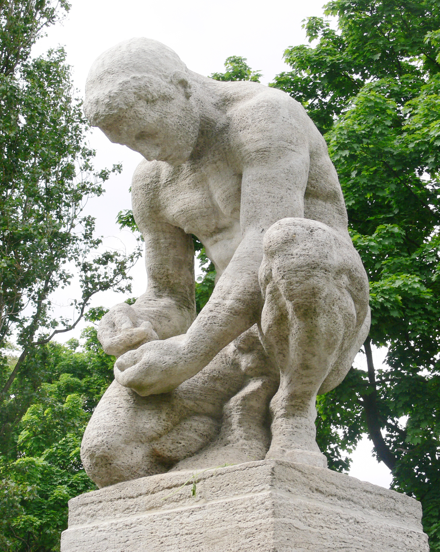 Ernst Wenck: Money counter fountain, Invalidenstrasse/Pappelplatz, Berlin-Mitte, Germany